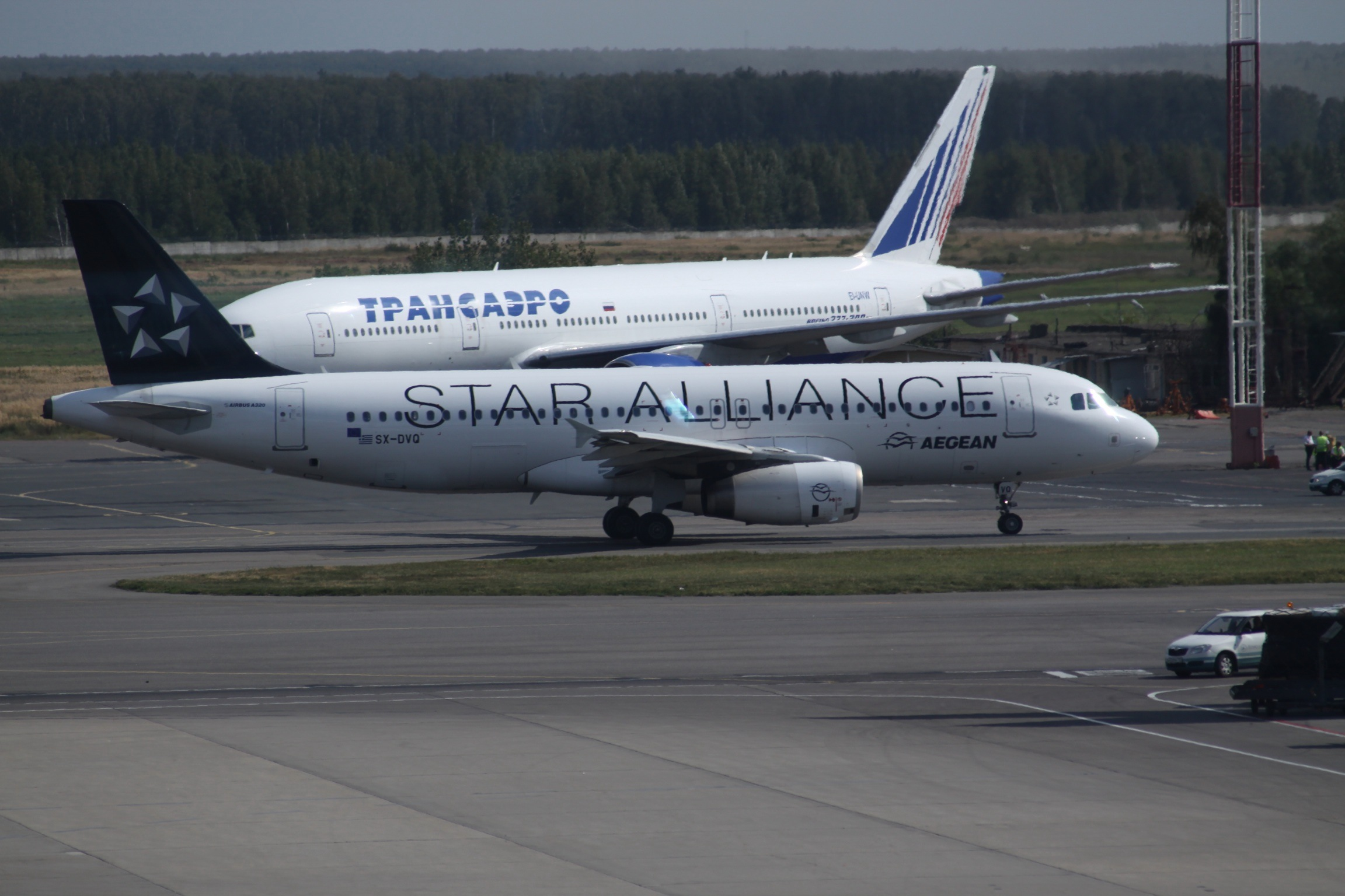 At Moscow Domodedovo